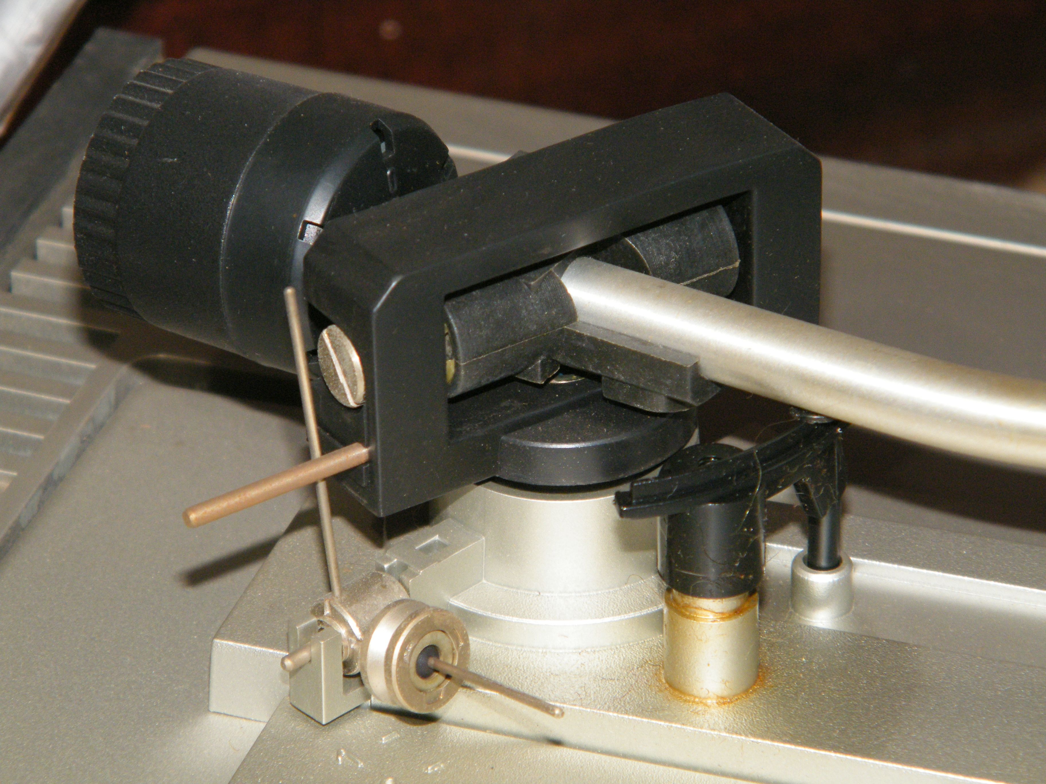 Antiscating mechanism